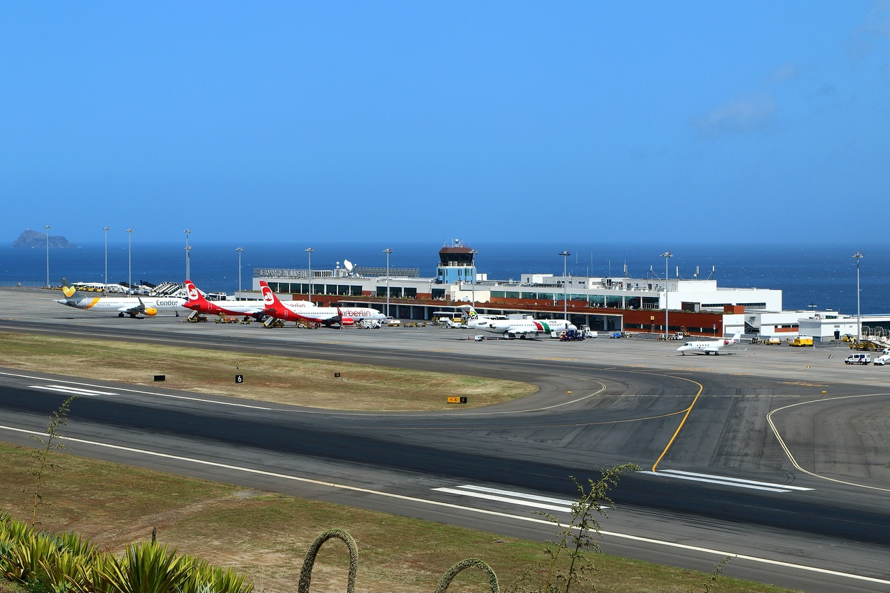 Remote view of Madeira Airport